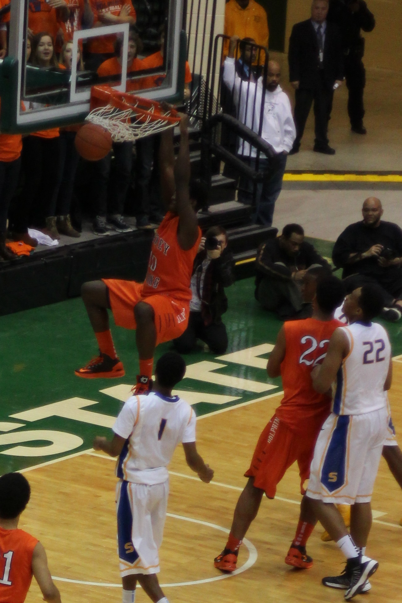 L. J. Peak performs a slam dunk during a Chicago Public High School League game between Simeon Career Academy and Whitney M. Young Magnet High School at the Jones Convocation Center